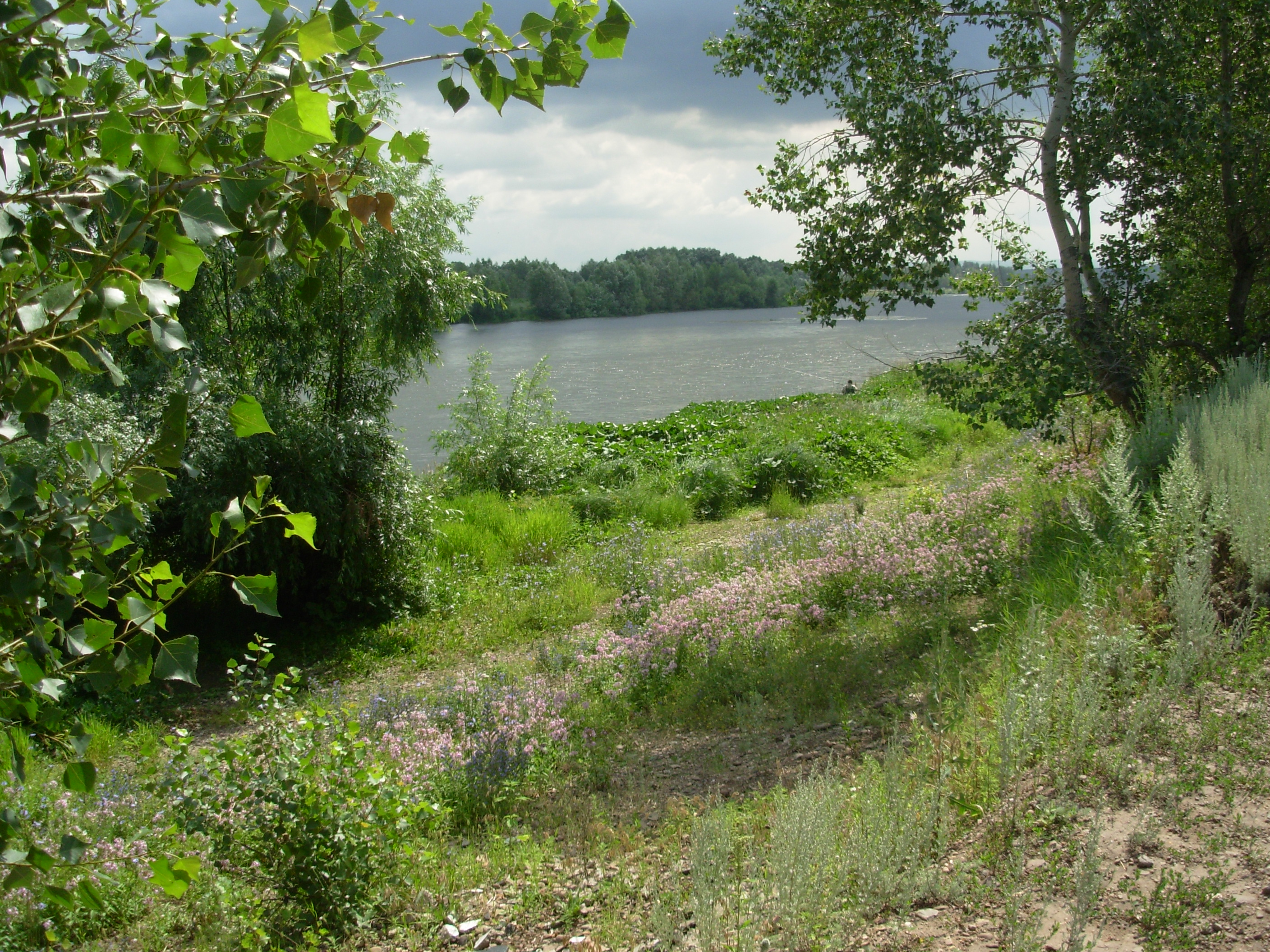 Belaya river